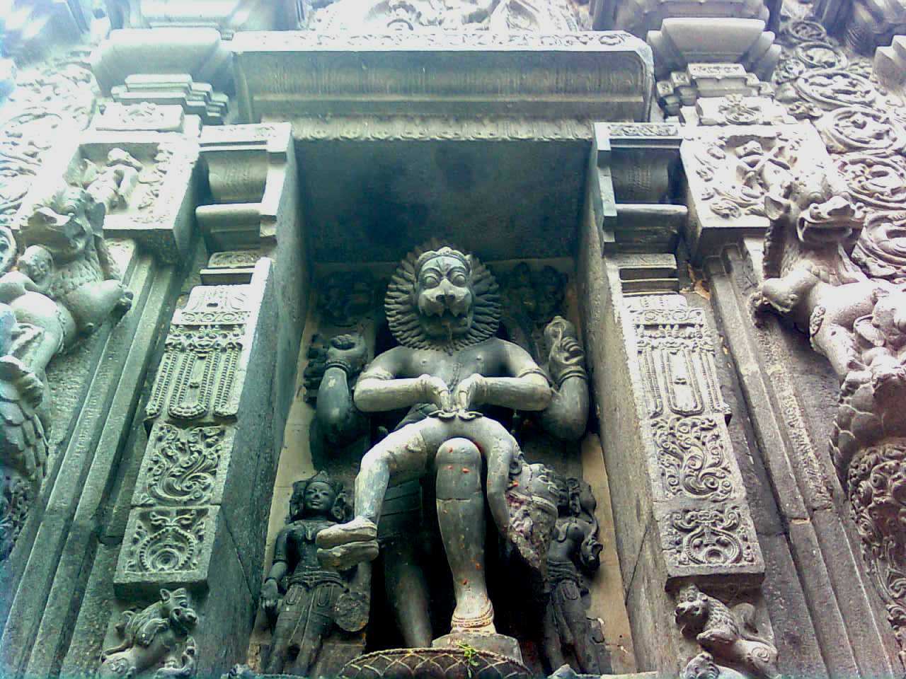 The rock cut statue of Lord Narasimha killing Demon Hiranyakshipu, at Simhachalam temple